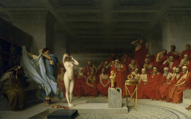 A depiction of Phryne, a famous hetaera (courtesan) of Ancient Greece, being disrobed before the Areopagus. Phryne was on trial for profaning the Eleusinian Mysteries, and is said to have been disrobed by Hypereides, who was defending her, when it appeared the verdict would be unfavourable. The sight of her nude body apparently so moved the judges that they acquitted her. Some authorities claim that this story is a later invention.